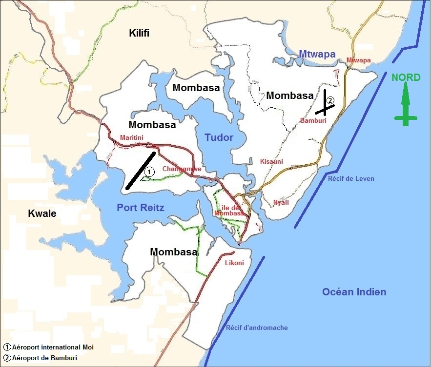 Map of the Mombasa County in KenyaKiswahili: Kata ya Ramani ya Mombasa nchini Kenya